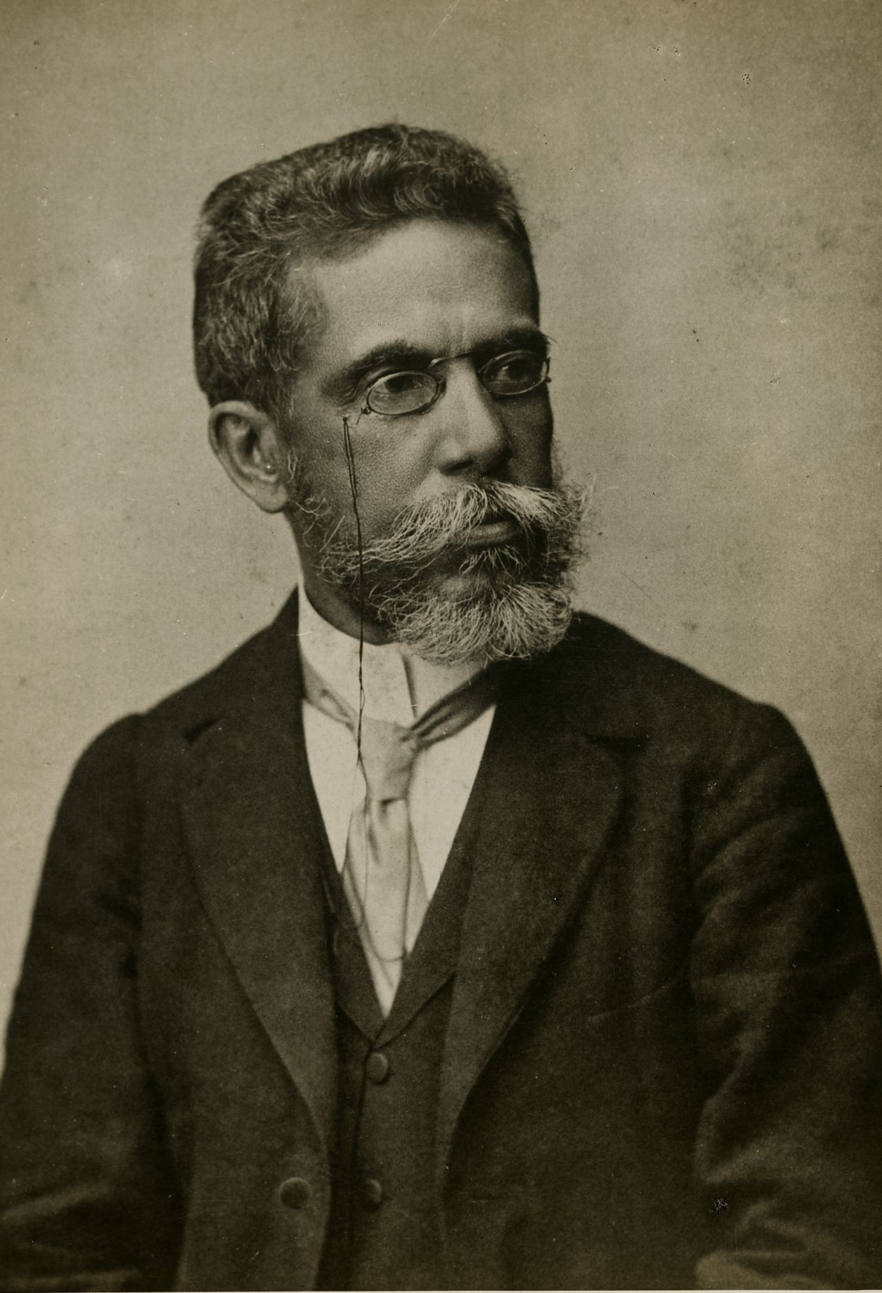 Machado de Assis (1839 - 1908), at age of 57 (c. 1896)